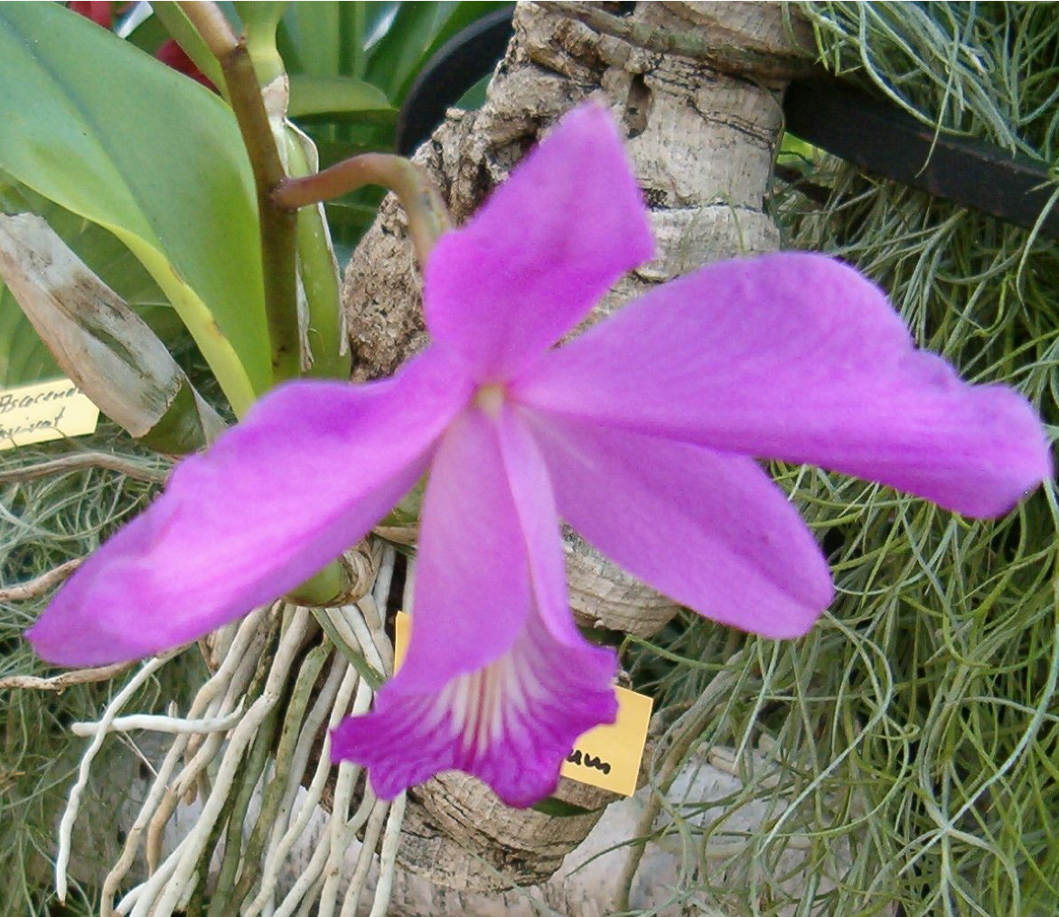 Cattleya nobilior, Habitus and Flowers Location: Botanical Gardens Berlin - Orchid Exhibition